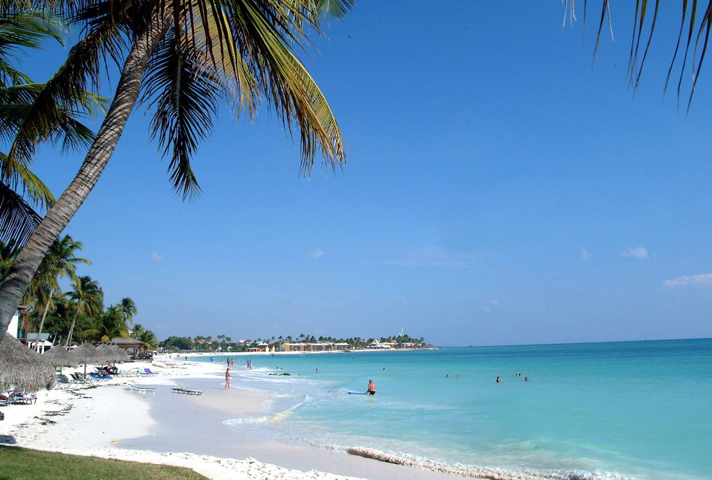 A view of Eagle Beach in Aruba.